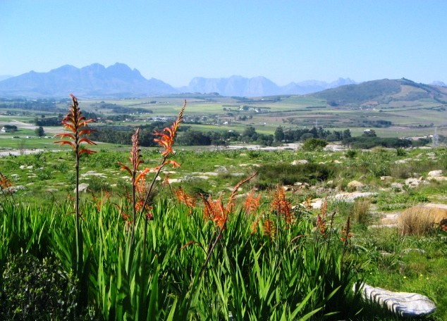 Bracken Nature Reserve. A nature reserve in the process of being rehabilitated on the outskirts of the city of Cape Town. South Africa.